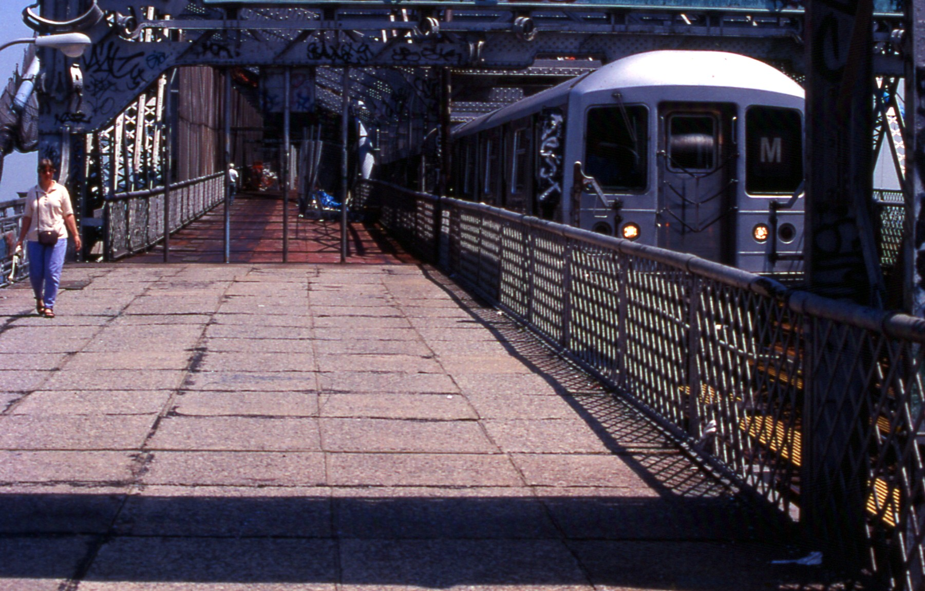 19950703 22 Subway, Williamsburg Bridge